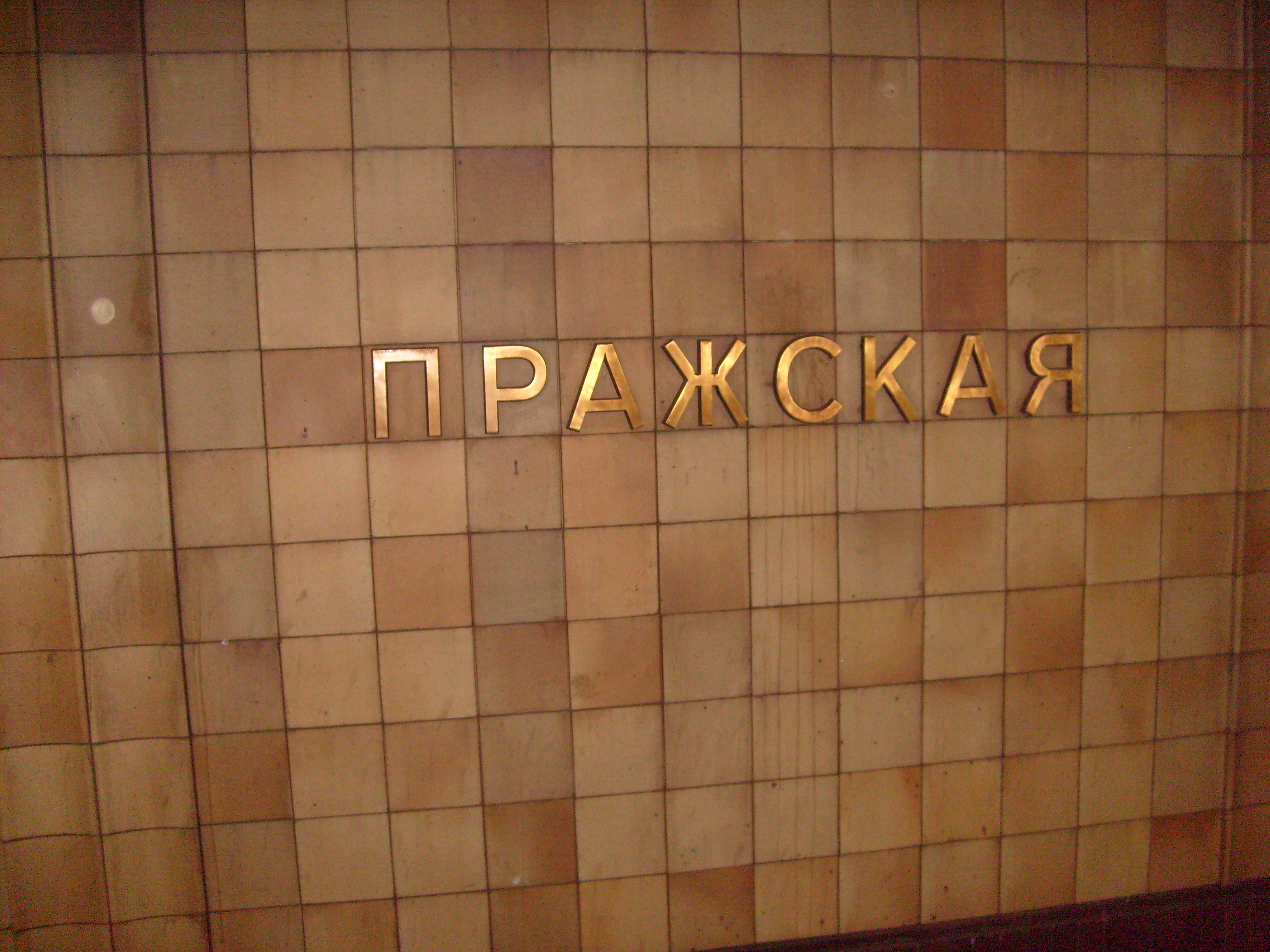 Metro station "Prazhskaya" in Moscow